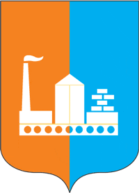 Spassk-Dalny (Primorsky kray), coat of arms